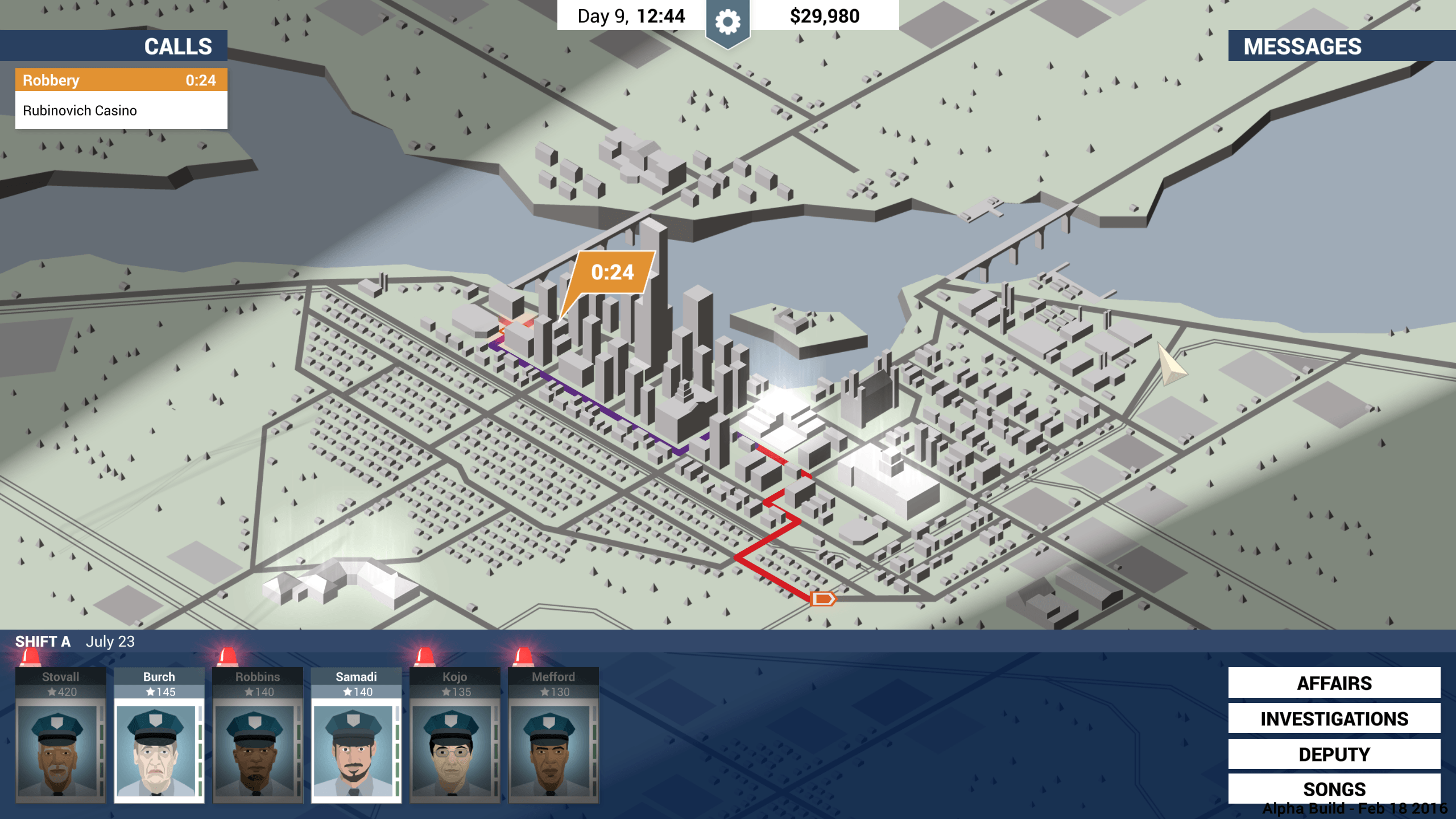 Screenshot of This Is the Police.